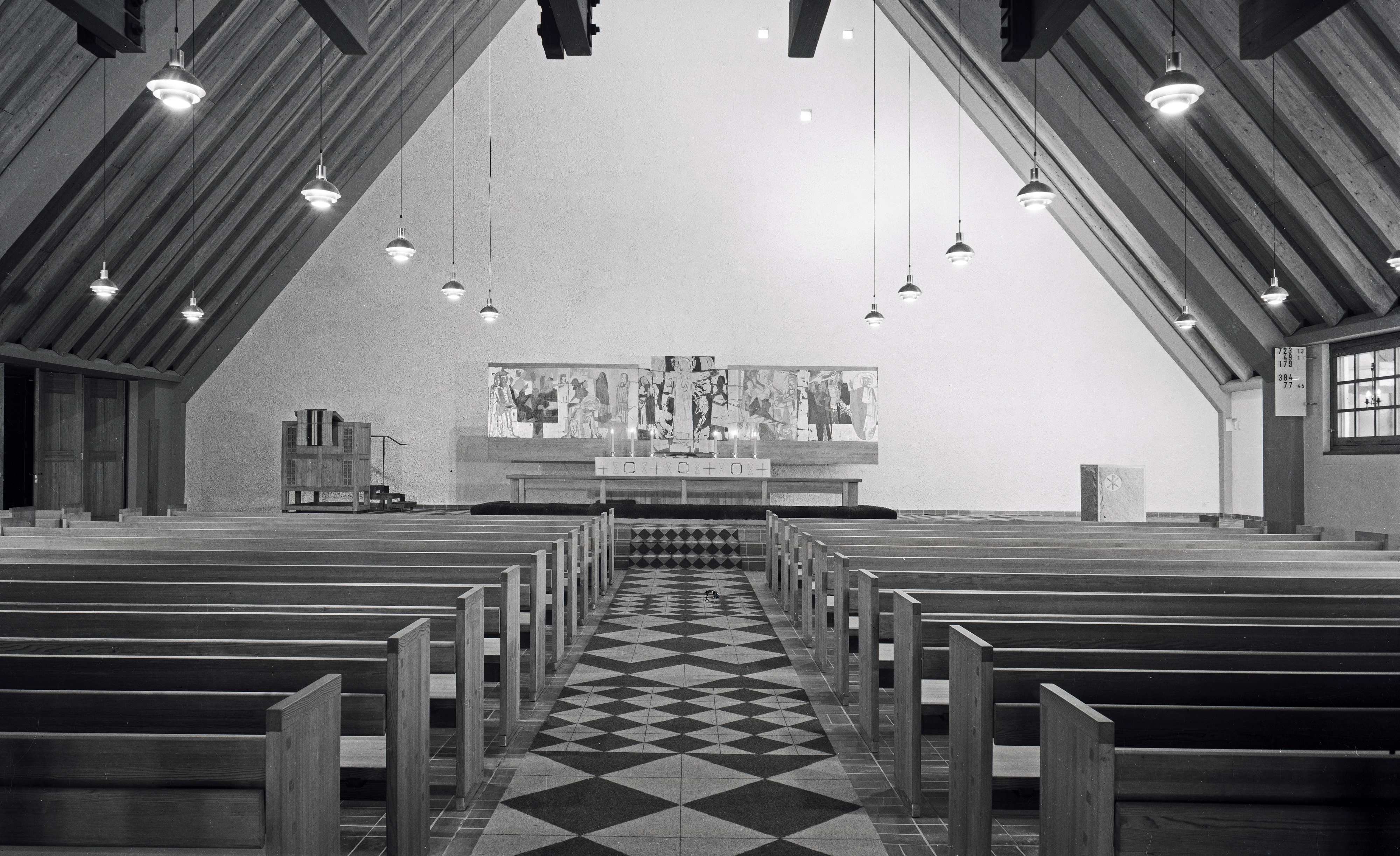 Interiørfoto av Holmen kirke, tegnet av arkitekt Knut Knutsen, som vant arkitektkonkurransen i 1958. Kirken er en arbeidskirke oppført i betong, og ble vigslet i 1965.